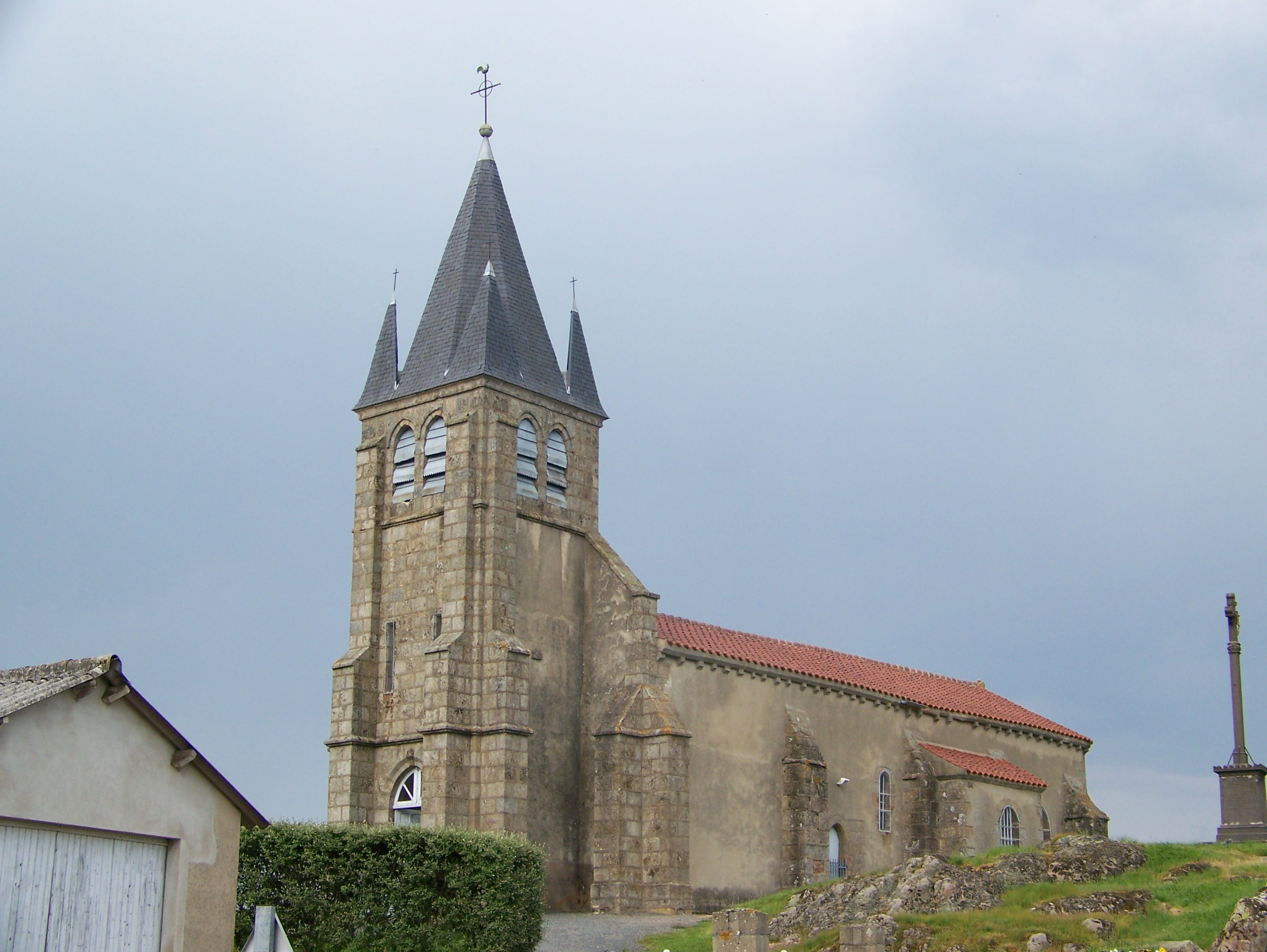 appareil photo le mien 14 avril 2007 freby hugo wikimedia